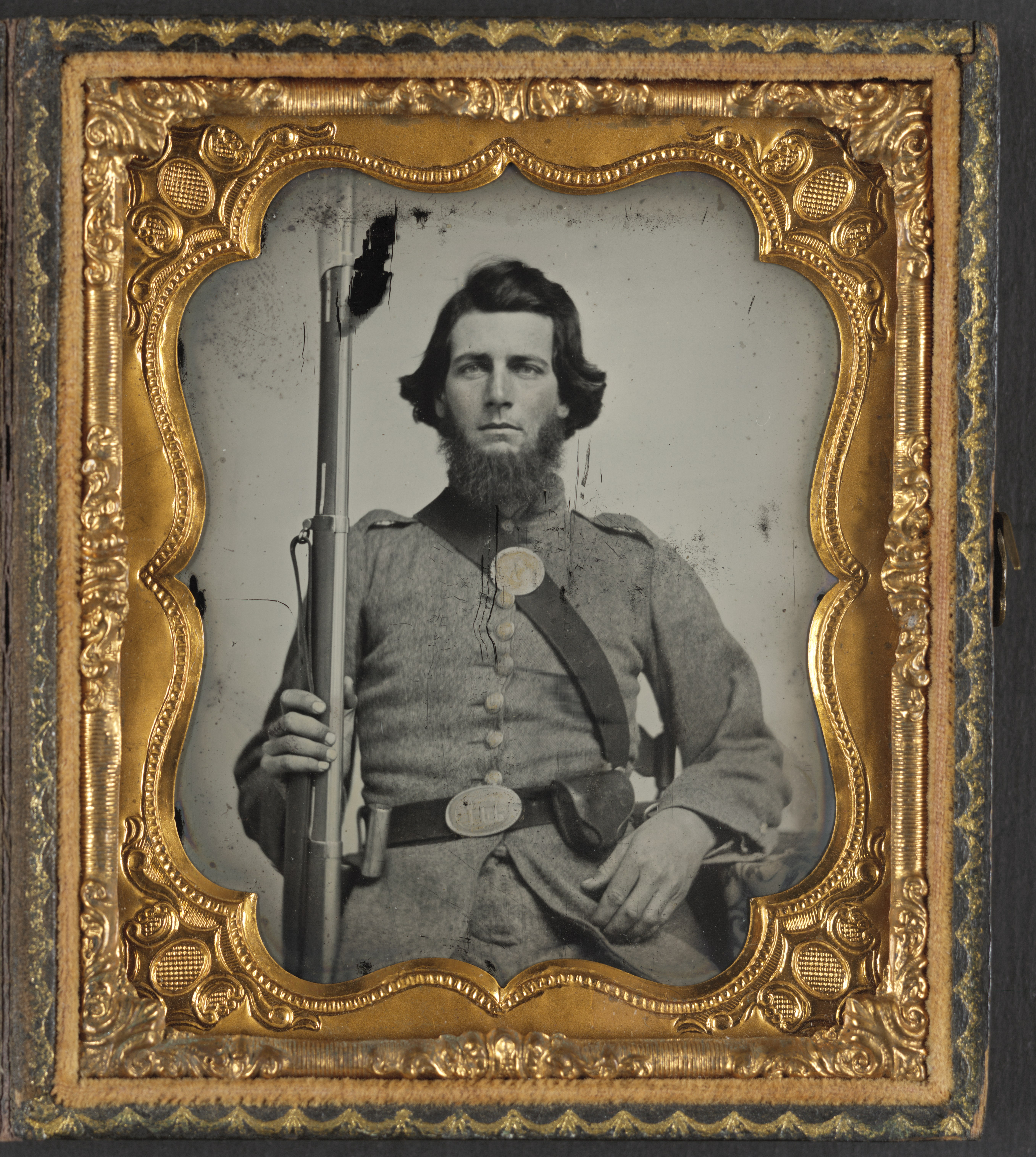 Title: Unidentified soldier in Confederate uniform and Georgia state seal belt buckle with musket Abstract/medium: 1 photograph : sixth-plate ambrotype ; 9.2 x 8.1 cm (case)